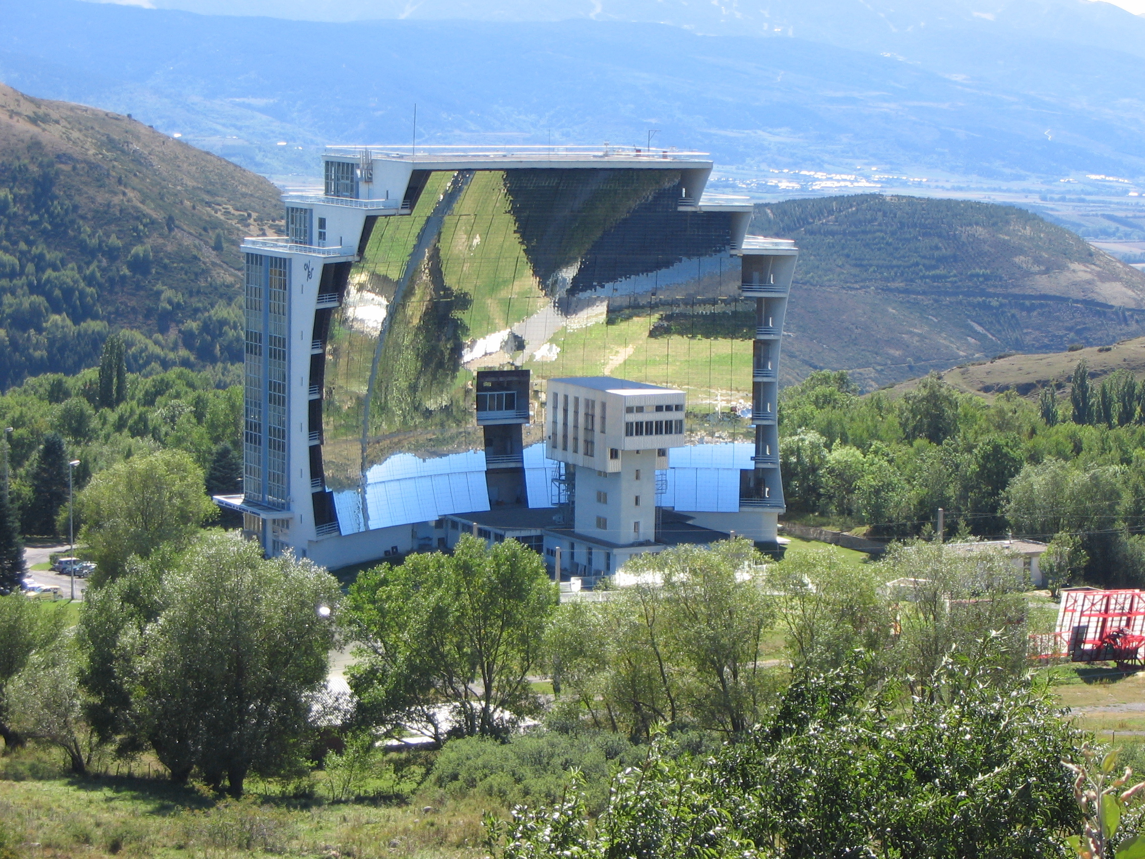 Centre du Four solaire Félix Trombe, Odeillo, France.